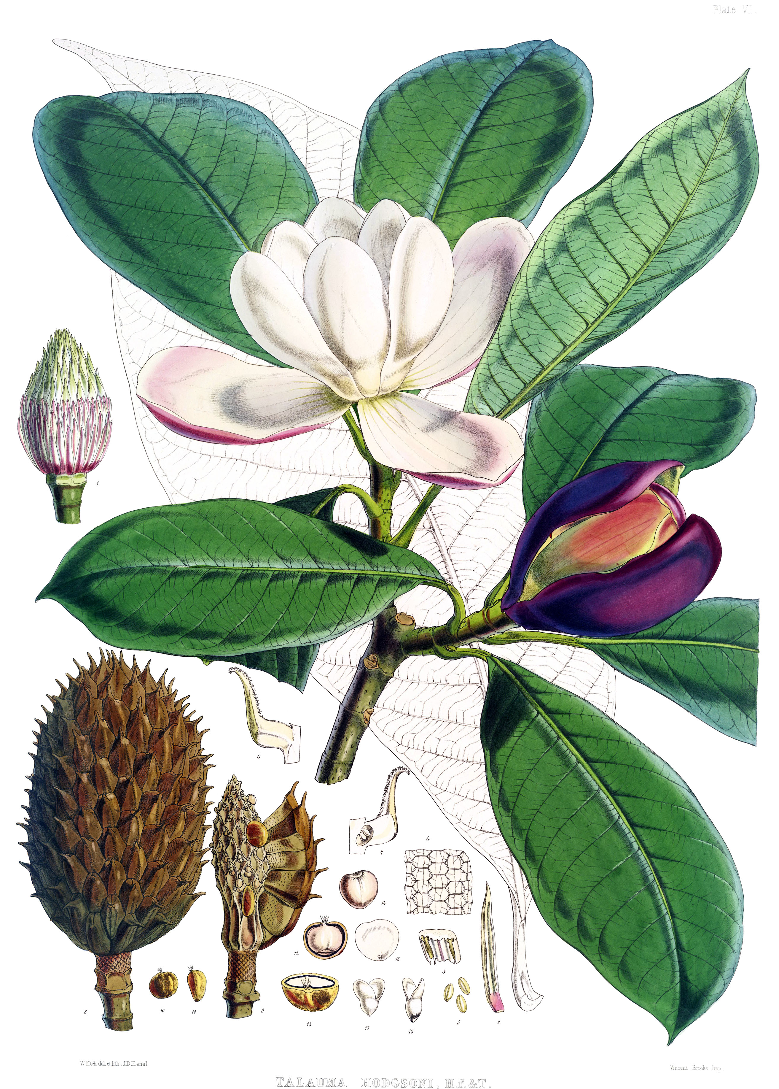 Magnolia hodgsonii (syn. Talauma hodgsonii). Original caption: "Flowering branch of Talauma Hodgsoni, with a full-grown leaf of a young tree behind, of the natural size. Fig. 1. Stamens and column of ovaria. 2. Stamen. 3. Transverse section of stamen. 4. Pollen. 5. Ovary. 6. Longitudinal section of ovary :—all magnified. 7. Ripe fruit. 8. The same with most of the carpels removed, showing the woody alveolate axis and insertion of seed. 9. Seeds :—all of the natural size. 10. Vertical, and 11, transverse sections of seeds. 12. Endopleura and albumen. 13. Portion of endopleura (very highly magnified). 14. Vertical section of albumen and embryo. 15, 16. Embryos :—all magnified.